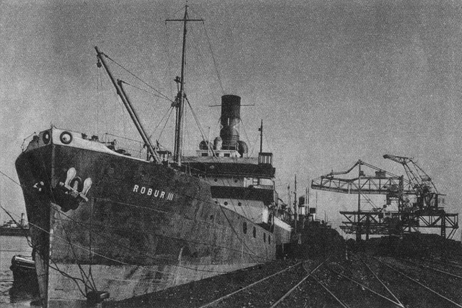 Polish steamer SS Robur III